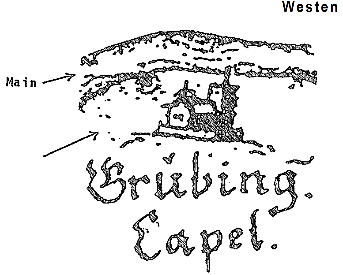 Drawing of the church St. Michaelis in Grubingen in the map of Spessart made by Paul Pfinzing in 1574